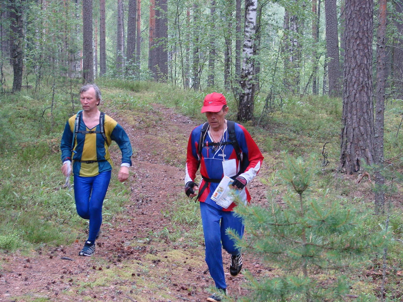 Team Levitsky Vladimir – Krukov Igor (3 place in category MSV) at course on 5th European Rogaining Championships 2008, Priozersk district, Leningrad region, Russia, 12-13 July 2008.